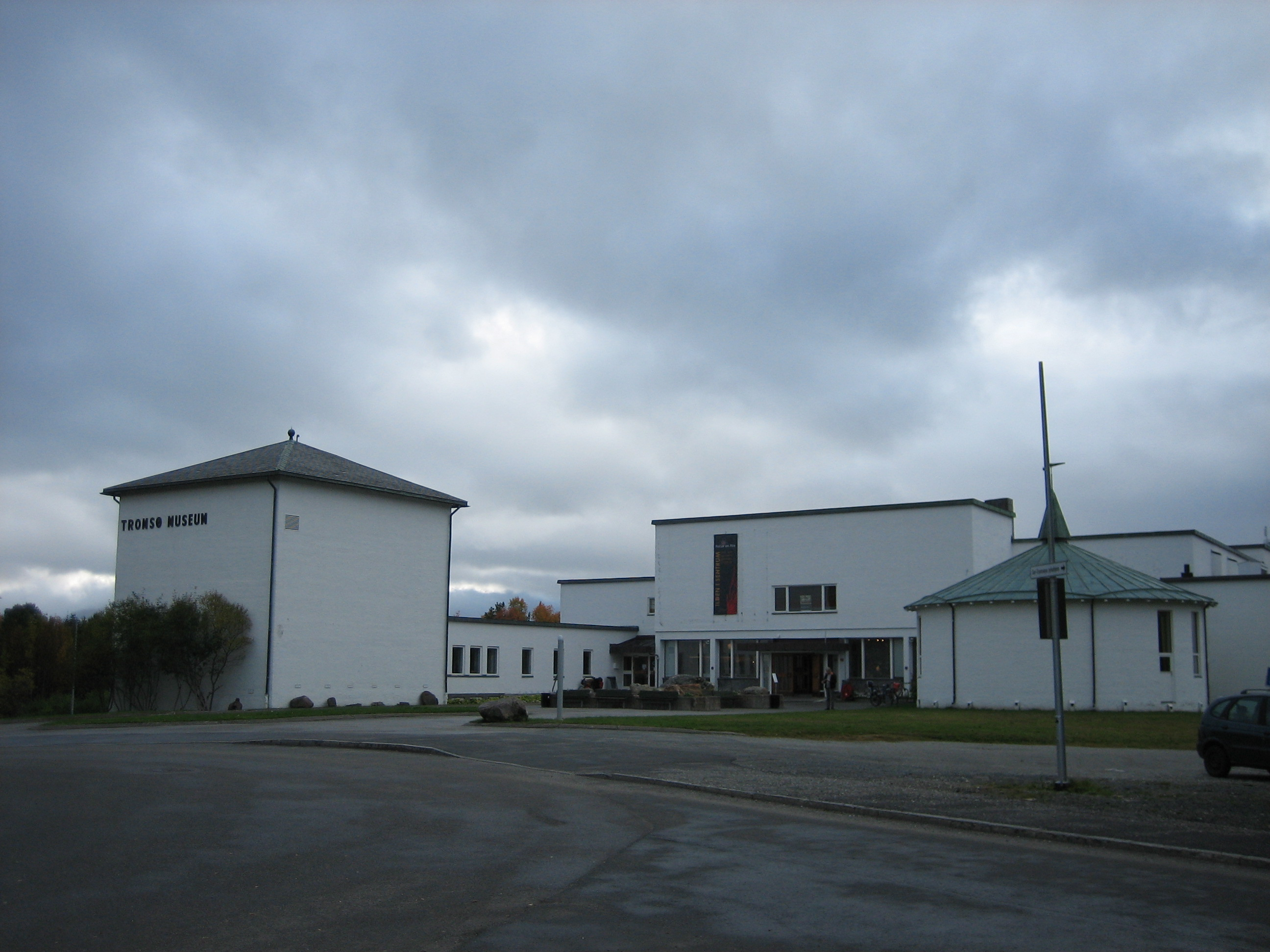 Tromsø University Museum